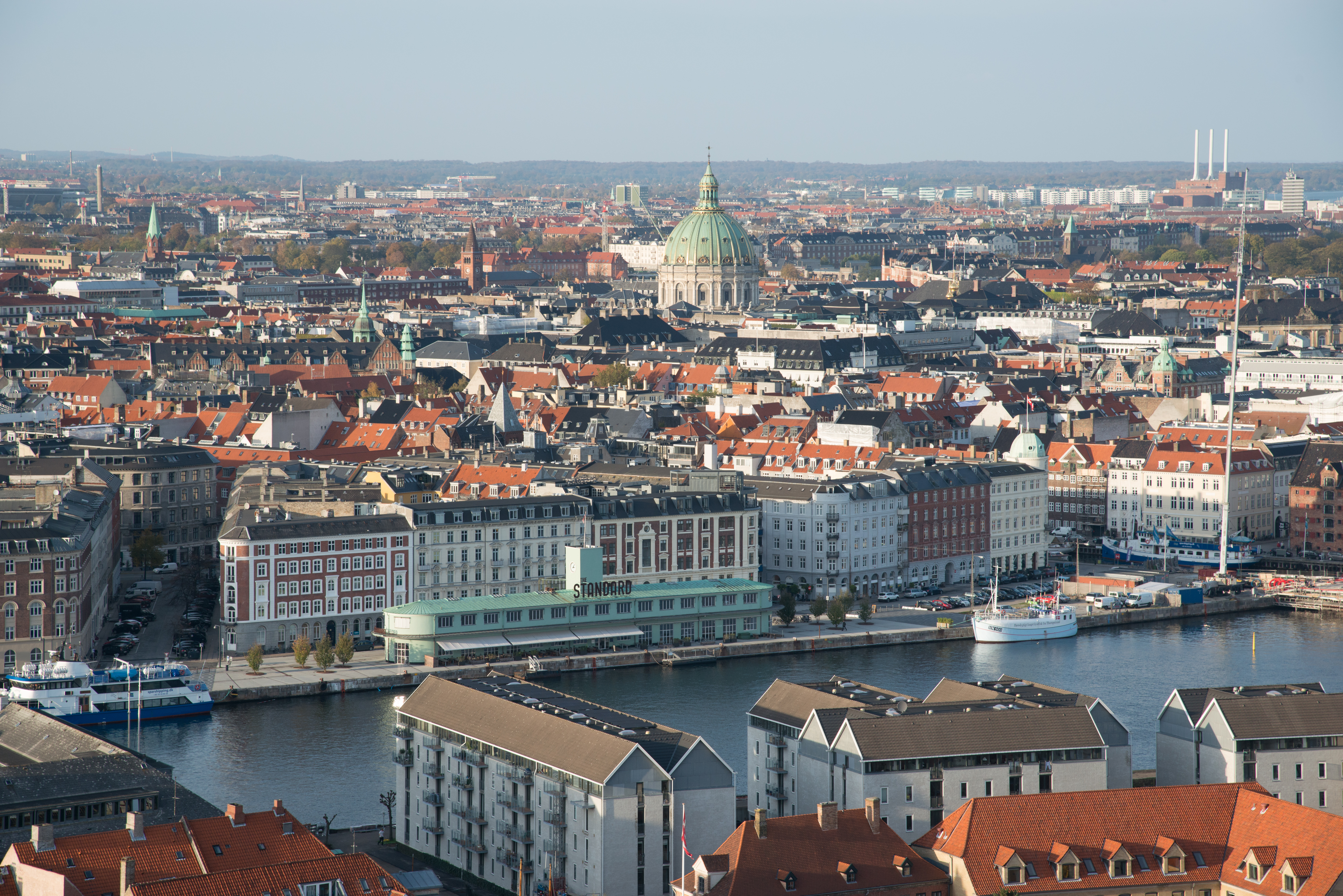 The Church of Our Saviour (Danish: Vor Frelsers Kirke) is a baroque church in Copenhagen, Denmark, most famous for its helix spire with an external winding staircase that can be climbed to the top, offering extensive views over central Copenhagen. It is also noted for its carillon, which is the largest in northern Europe and plays melodies every hour from 8 am to midnight. SPIRE The black and golden spire reaches a height of 90 metres and the external staircase turns four times counterclockwise around it. Inspiration for the design came from the spiral lantern of Sant'Ivo alla Sapienza, which turns the same way around. It is built as a timber-framed structure, octagonal at its base, with round-arched openings and round windows with gilded frames. The windows are flanked by gilded pilasters in the composite order. Around the octagonal base of the spire on the four corners of the square tower, stand four statues of the four evangelists. The octagonal structure is topped by a small platform with a gilded railing and it is from this point that the staircase become external. There is a total number of 400 steps to the top of the spire, the last 150 being outside. The spire is topped by a vase-like structure, carrying a gilded globe with a 4-meter-tall figure of Christ Triumphant carrying a banner. It has an infamous reputation for being the ugliest sculpture in Copenhagen but is intentionally made with exaggerated proportions because it is only meant to be seen from long distances